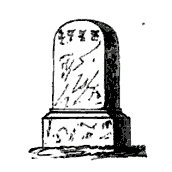 One of the Yuan and Ming Dynasty monuments on the Tyr cliff (Khabarovsk Krai), seen ca. 1860 and described by E.G.Ravenstein in his book as follows: "The first of these monuments stands two paces from the precipic and is about five feet high. Its base is granite, and the upper portion is a grey fine-grained marble. From two inscriptions on this monument we learn that in former times a temple or monastery stood here. The Archimandrite Avvakum ... believes them to have been made by some illiterate Mongol lama, .... who wrote 'Tzi-yun-nin-zy' instead of 'Yun-nin-zy-tzi', i.e. 'Inscription on the Monastery of the Eternal Repose'. On the back of the monument a similar inscription occurs in Mongolian. On the left-hand side stand the Sanscrit words 'Om-mani-badme-khum', and beneath in Chinese, 'Dai Yuan shouch'hi-li-gun-bu', i.e. 'The great Yuan spread the hands of force everywhere'. In a second line, on the same side, the words of 'Om-mani-badme-khum' are written in Chinese and Nigurian. The inscription on the right side contains the same in Chinese, Tibetan and Nigurian."